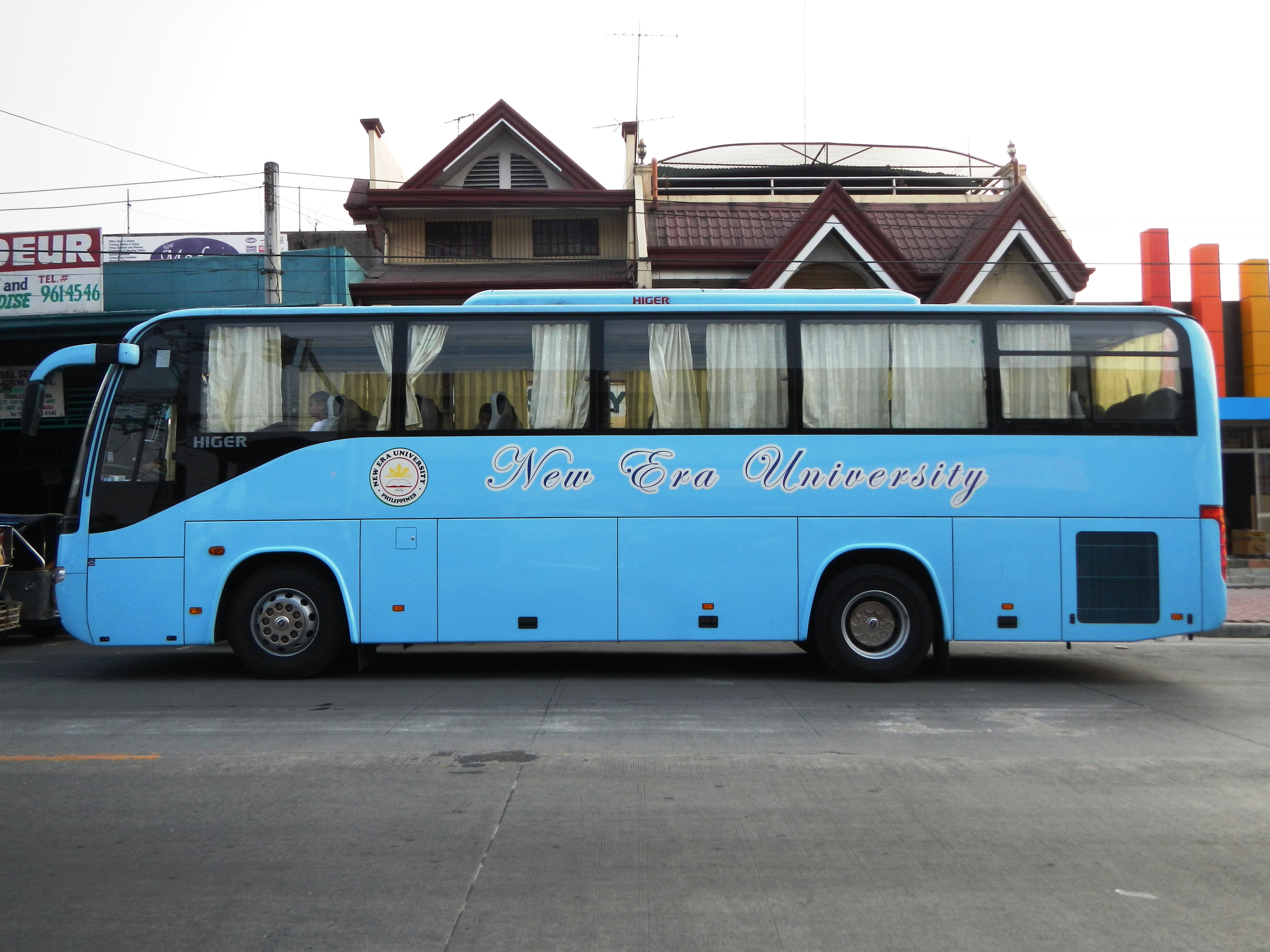 Upload Wizard photo of New Era University [1] bus in San Fernando City, Pampanga, New Era University (NEU) is a private educational institution in the Philippines, run by the Iglesia ni Cristo (INC). [2]